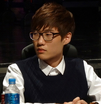 Ham Jang-sik (함장식) on Nov 2014